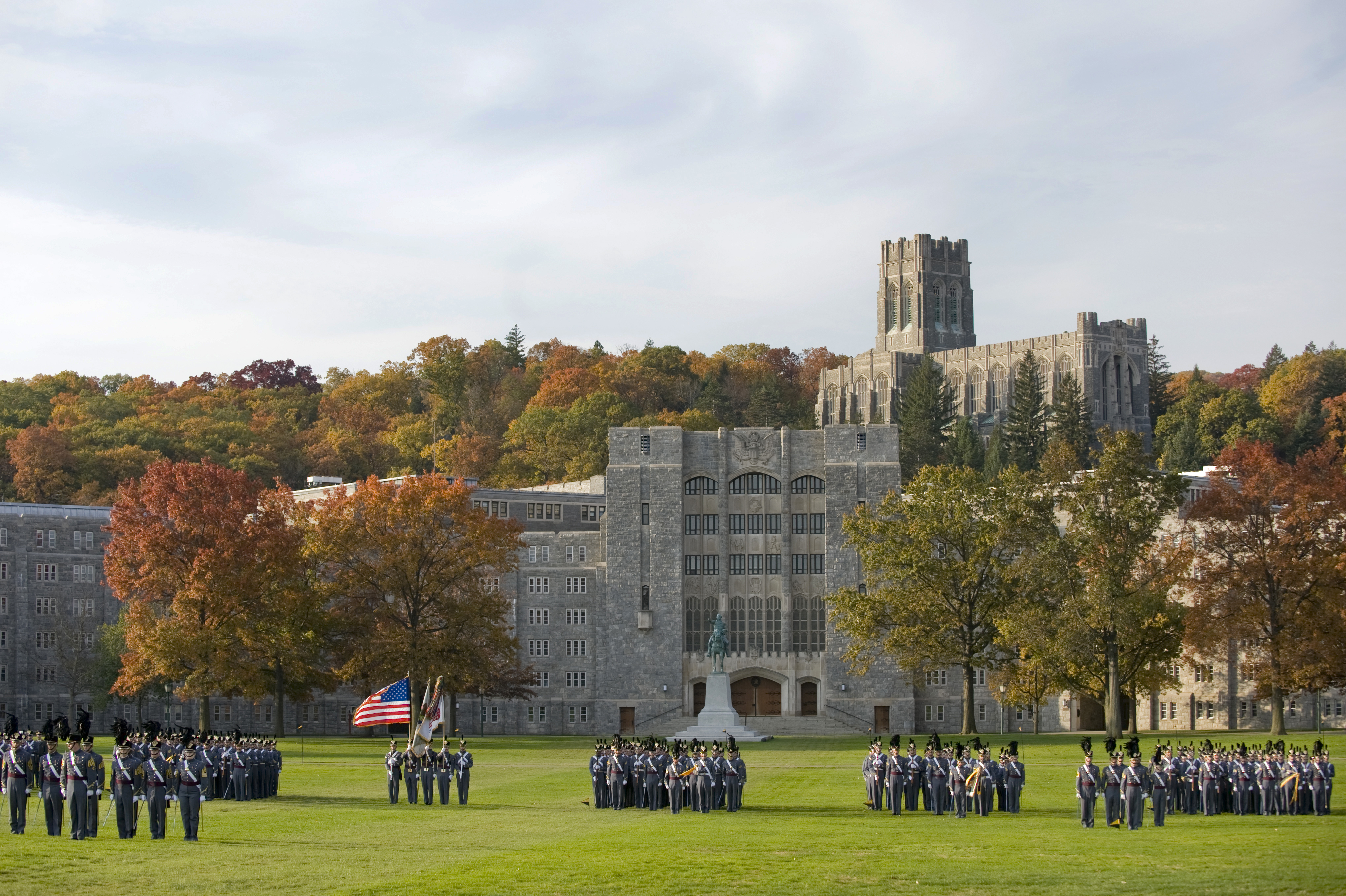 U.S. Military Academy cadets prepare for pass and review before a football game in West Point, N.Y. Nov. 1, 2008. The academy's "Black Nights' took on the "Eagles" of the U.S. Air Force Academy during this year's matchup between the two service academies. Air Force defeated Army 16-7. DoD photo by Navy Petty Officer 1st Class Chad J. McNeeley Download Hi-Res